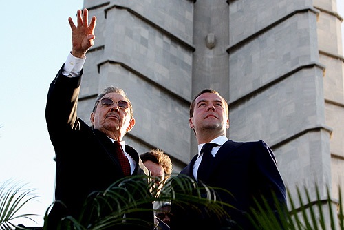 HAVANA.With President of the Council of State and Council of Ministers of Cuba Raul Castro.